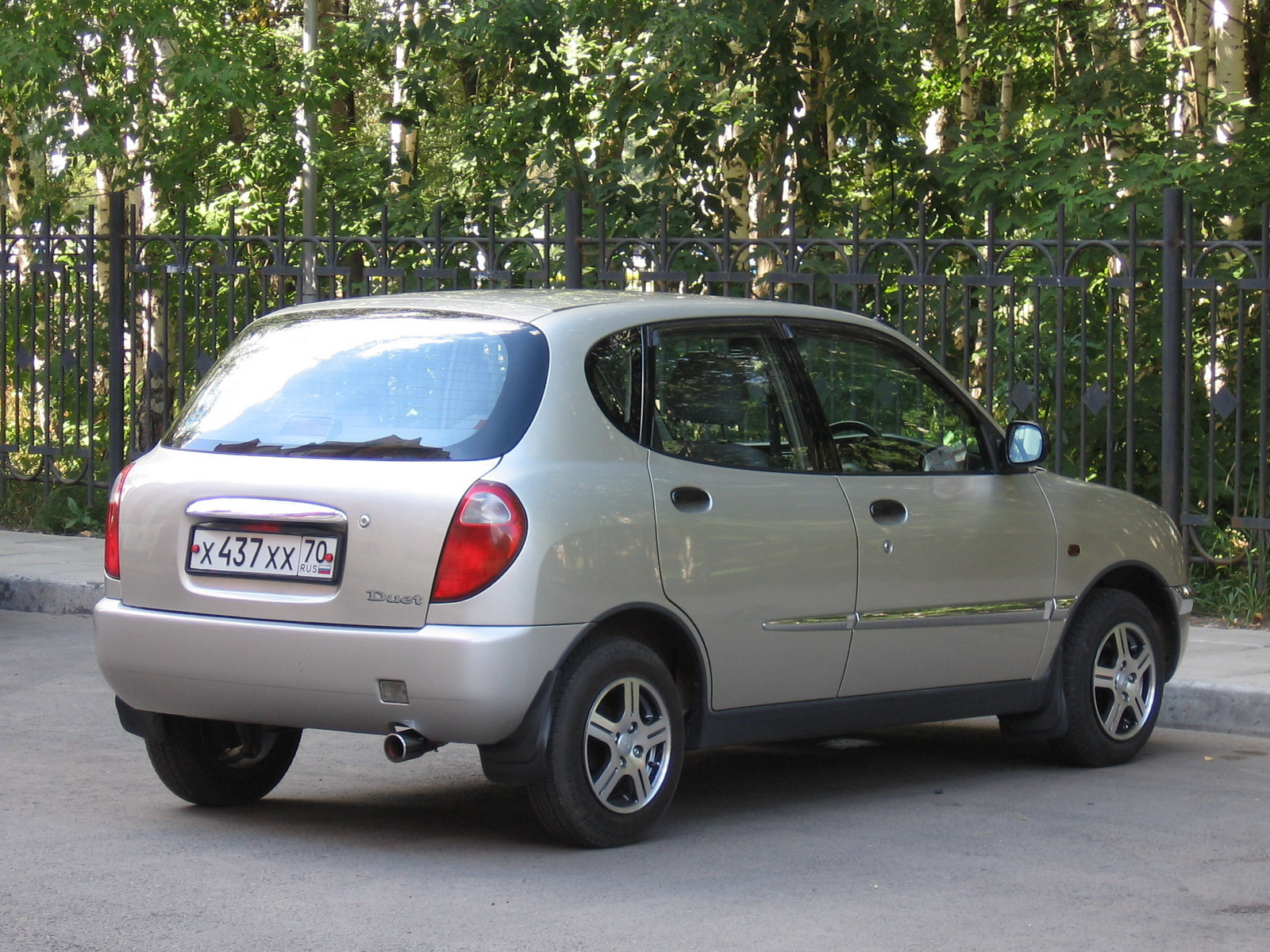 1998 Toyota Duet in Tomsk, Russia.